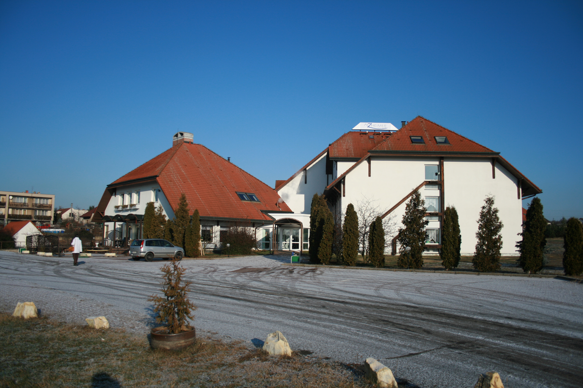 Sanatorium for Alzheimer´s disease patients in Zlosyň near of Mělník, central Bohemia, Czech Republic